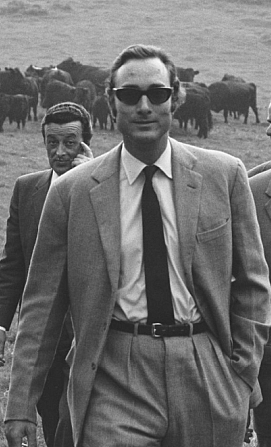 Photographs by Welsh photo journalist Geoff Charles Prince William of Gloucester visiting a farm near Tywyn